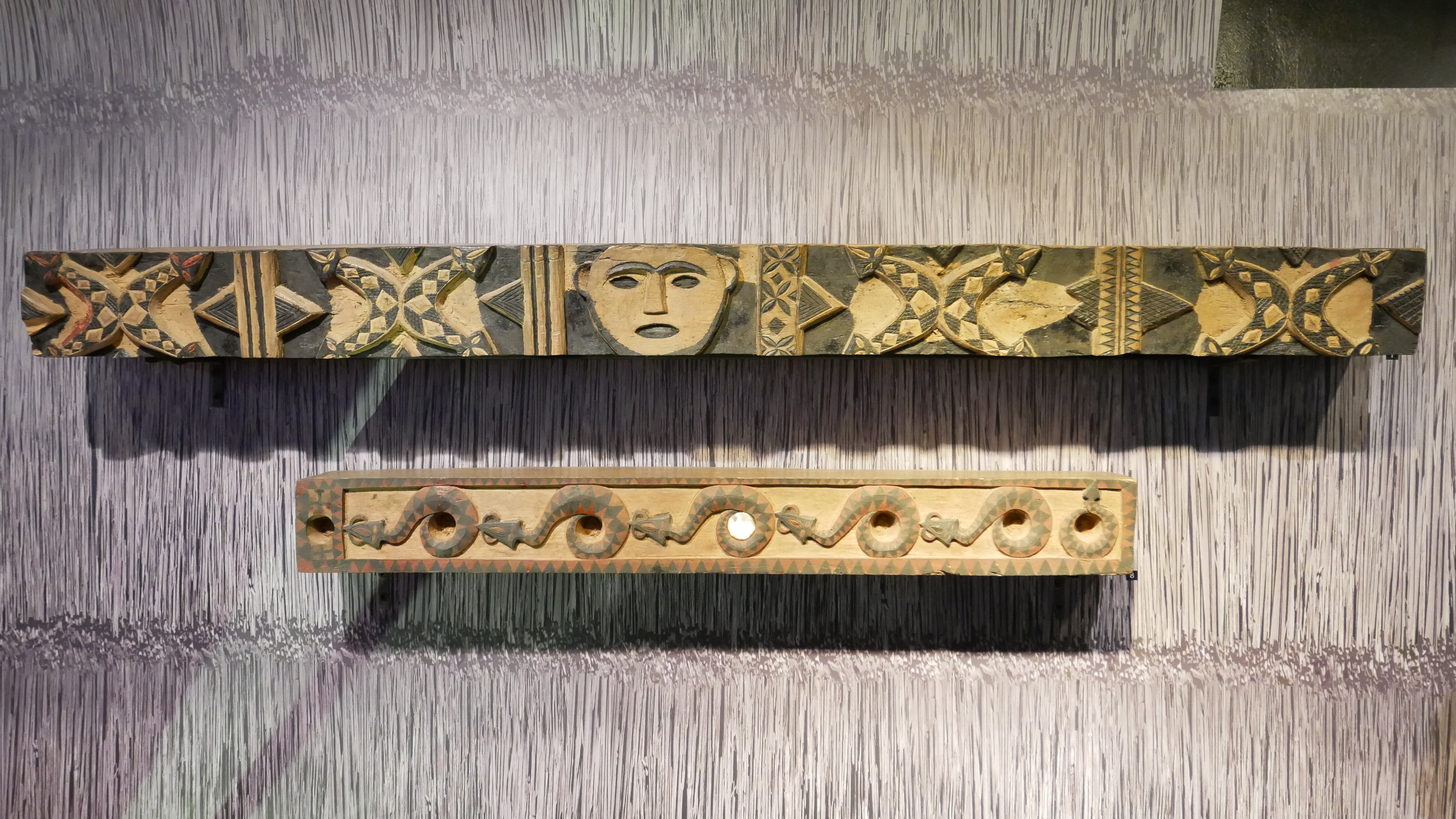 排灣族筏灣社（高雄州潮州郡蕃地下バイワン社）與佳興社（同蕃地プンテイ社）木枕，臺北市中正區城內次分區黎明里